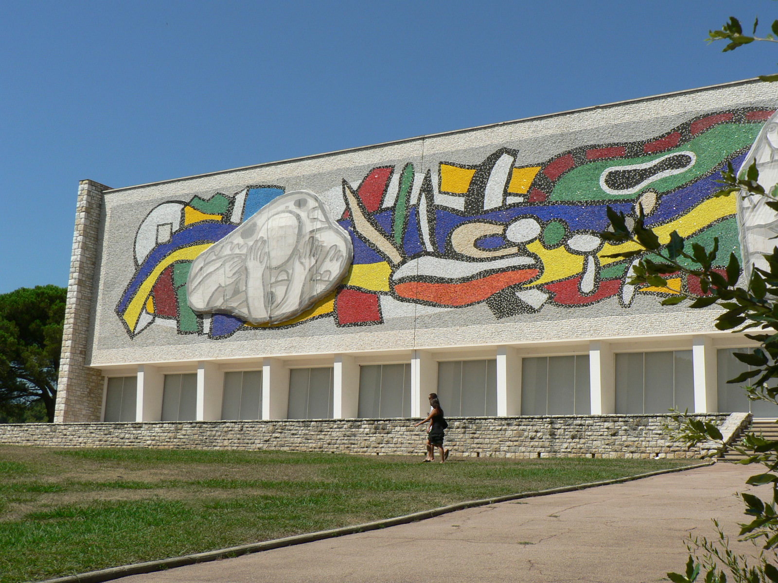 National Museum of Fernand Léger in Biot, France.